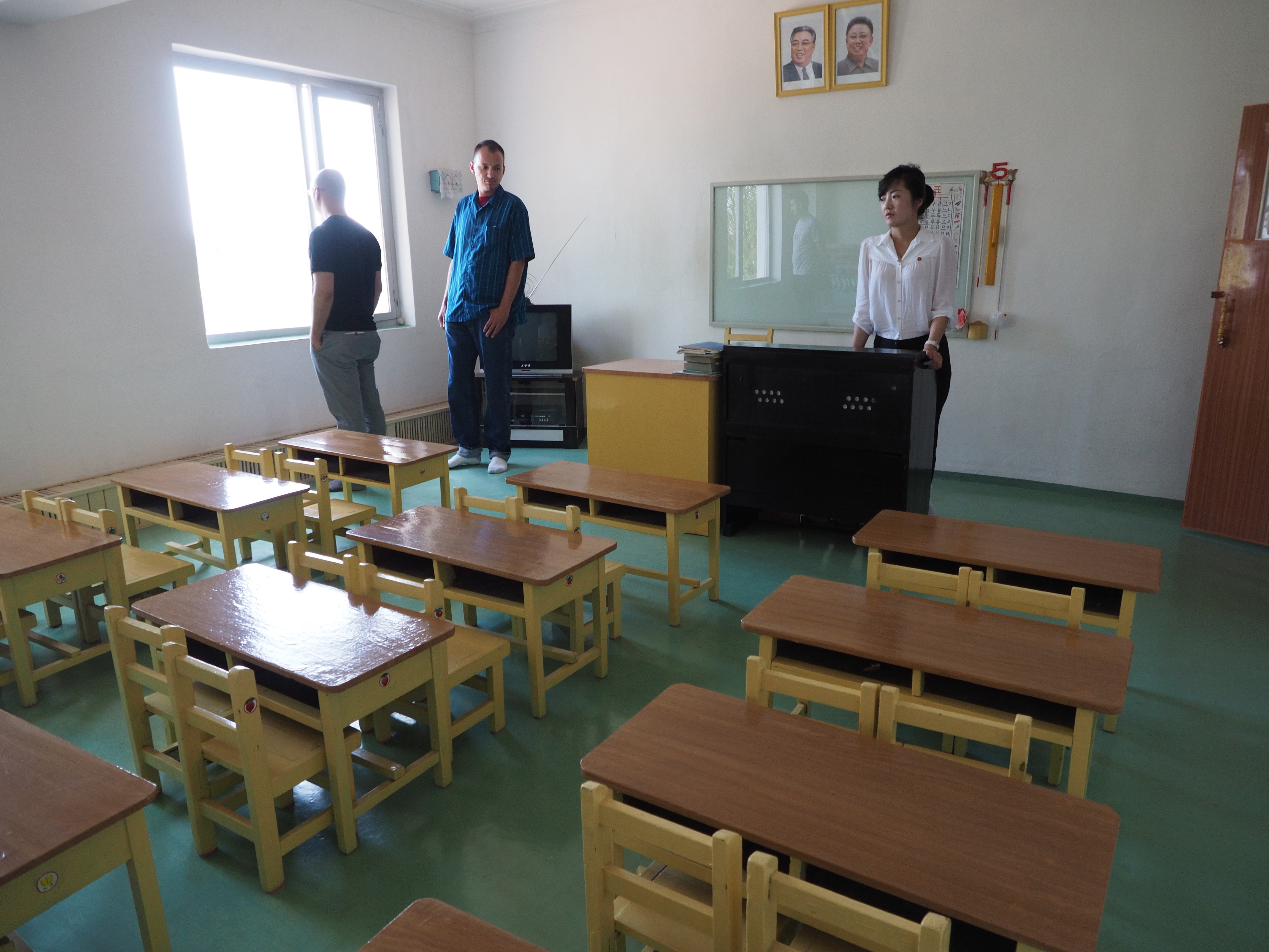 School classroom, Tongbong Cooperative Farm